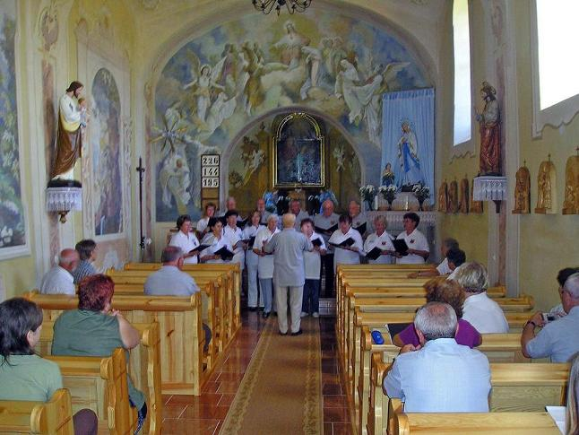 Church/Zalaháshágy/Hungary/Europe